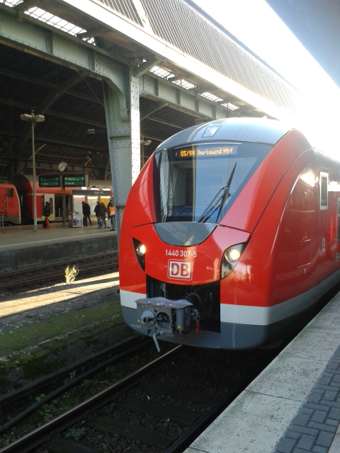 A DBAG Class 1440 S-Bahn train on its first day in service on S5/S8 service at Hagen Hauptbahnhof